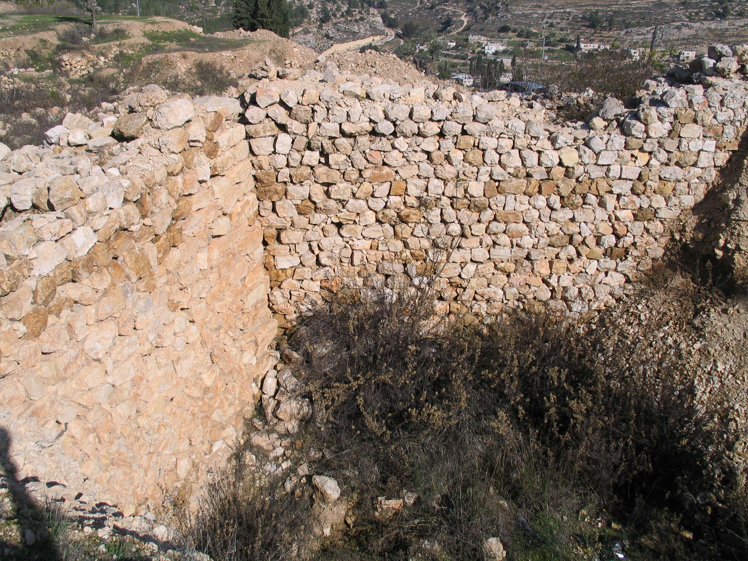 Khirbat el-yahud (ancient Beitar) near Batir.